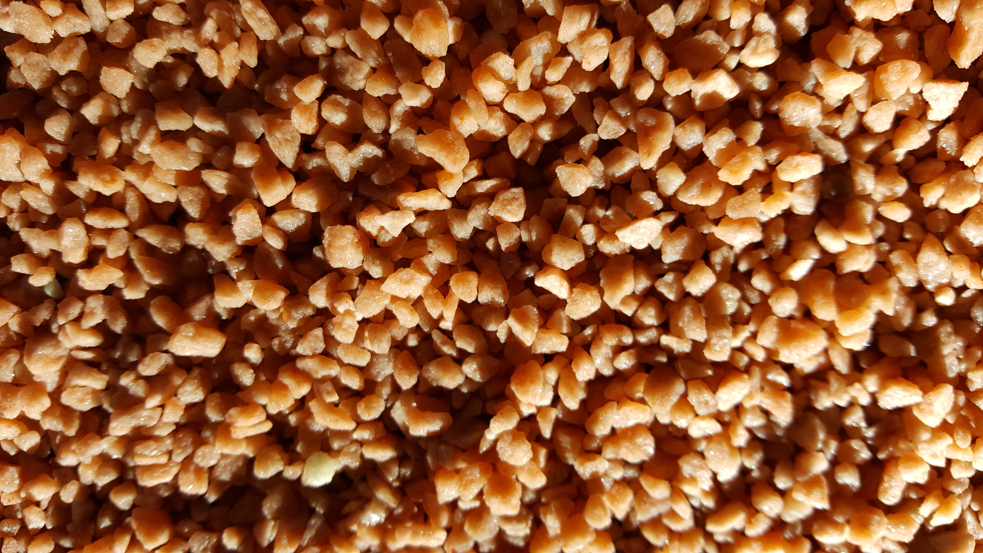 Potassium chloride is a fertilizer, frequently used in a compacted form to facilitate broadcast application.